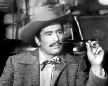 Rico Alaniz in the TV series The Adventures of Kit Carson, episode Enemies of the West (cropped screenshot)